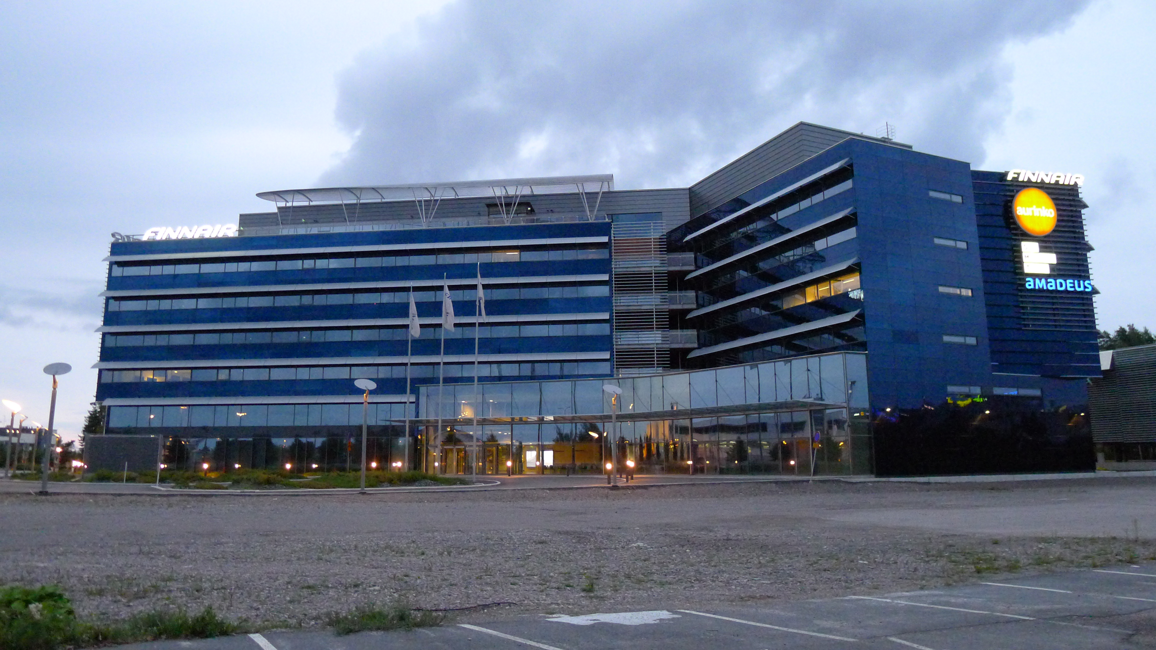 Finnair headquarters